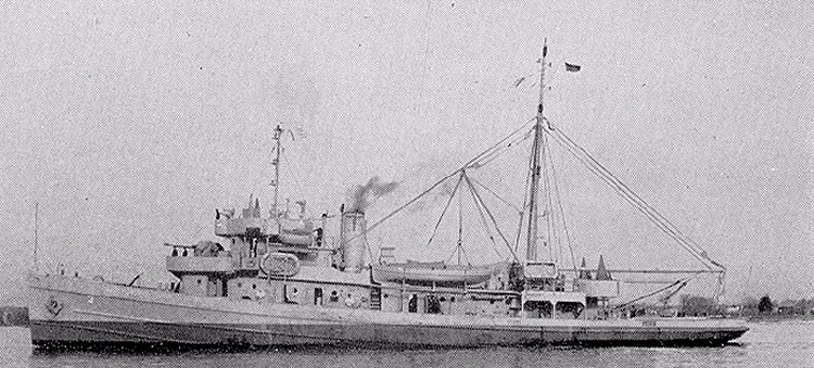 The U.S. Navy seaplane tender USS Thrush (AVP-3), circa in 1943.